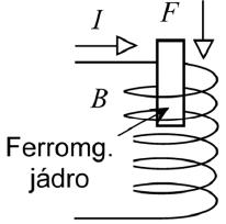 Princip elektromagnetického měřáku schématicky